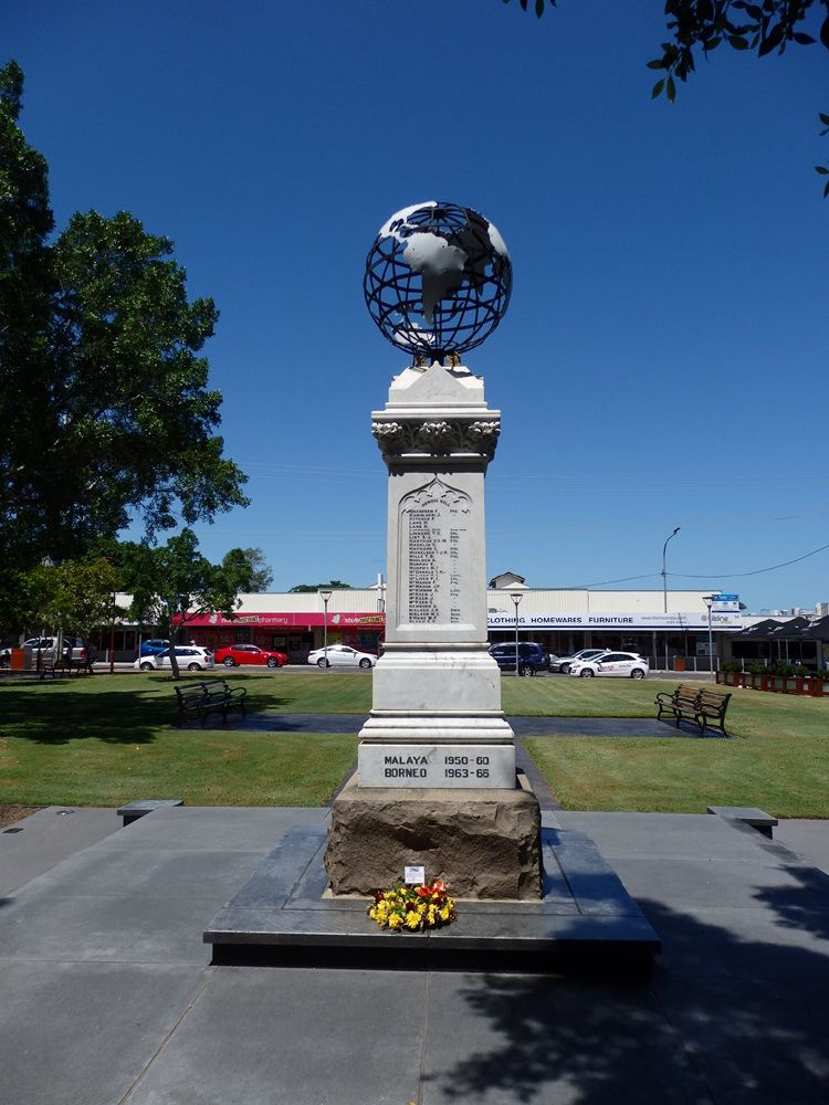 650026 cenotaph west side, looking towards Main Street